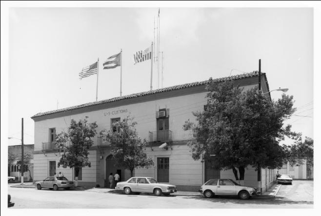 U.S Customs House, Ponce — in Ponce, Puerto Rico. Image: HABS—Historic American Buildings Survey of Puerto Rico, general view, looking northwest.